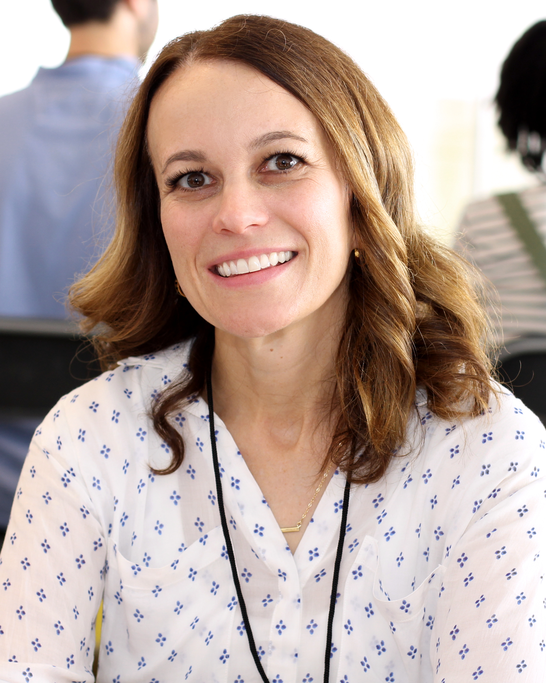 Author Ally Condie at the 2018 Texas Book Festival in Austin, Texas, United States.